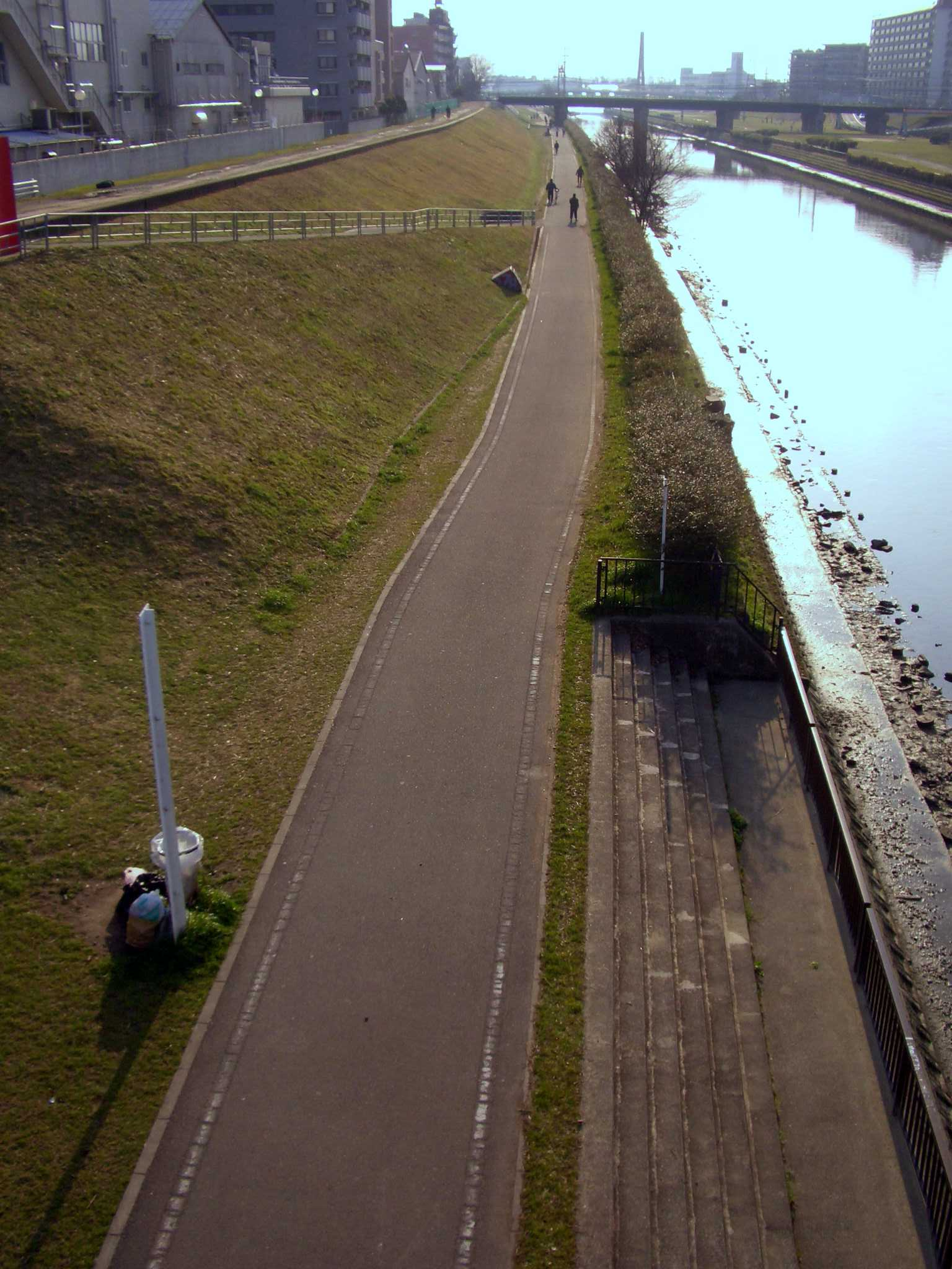 Naniwa Cycling Road in Osaka,Japan